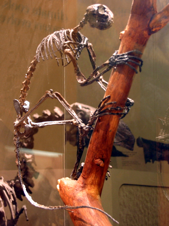 Early Eocene (55-50 mya); Smilodectes gracilis, Smithsonian National Museum of Natural History